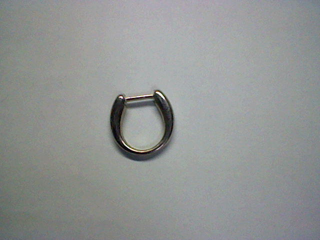 Glass holder